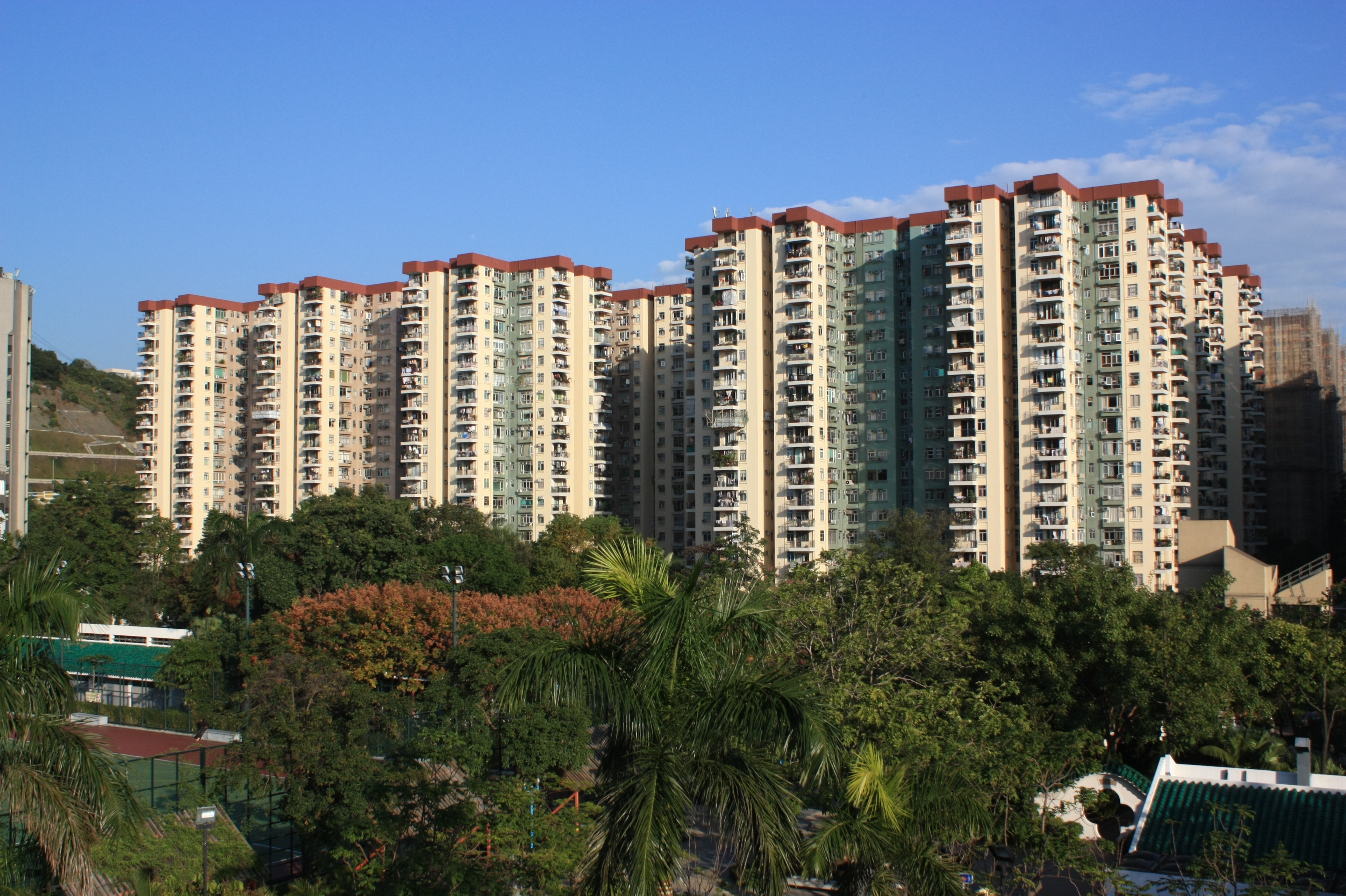 Mei Foo Sun Chuen Phase 5